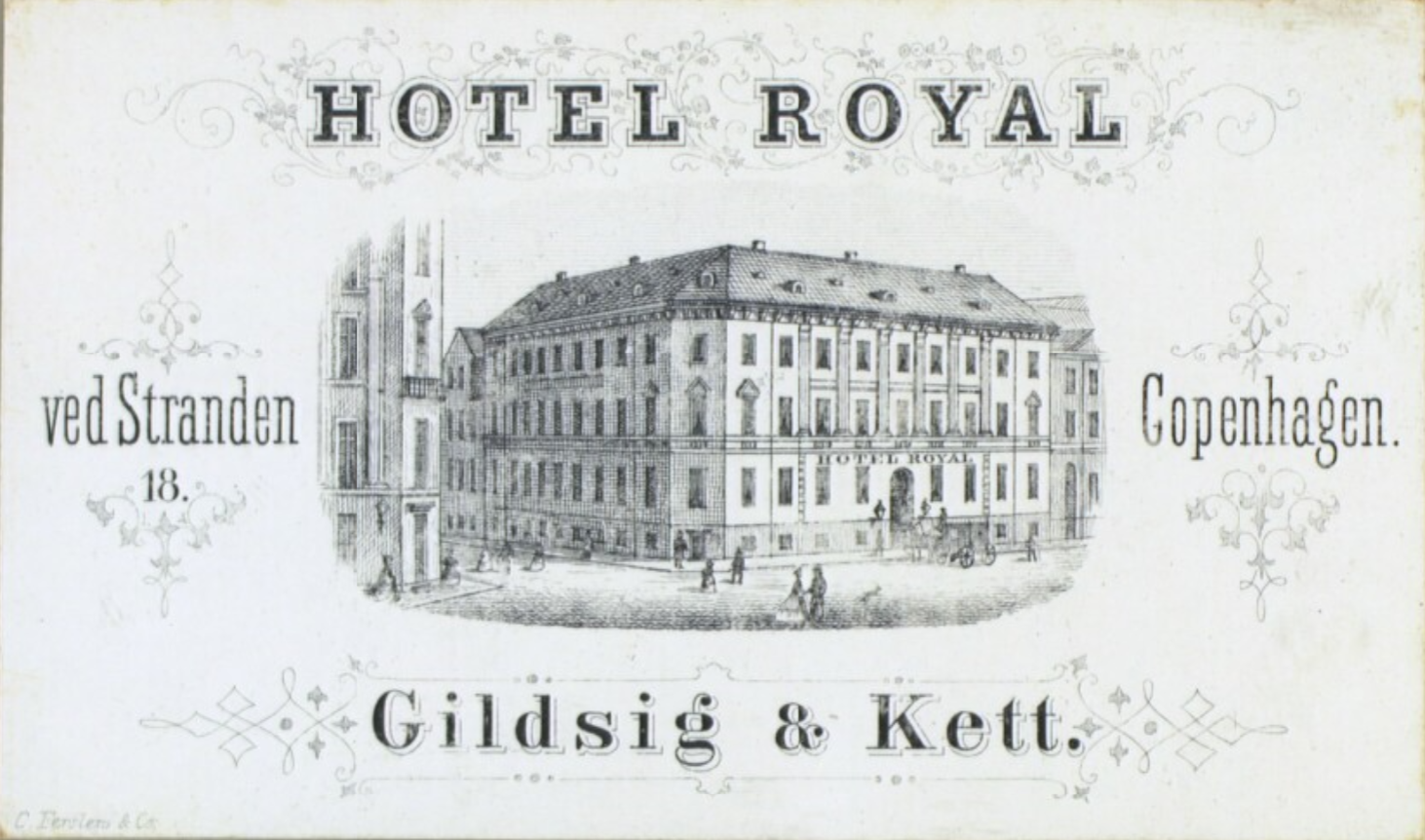 The former Hotel Royal in Copenhagen, Denmark